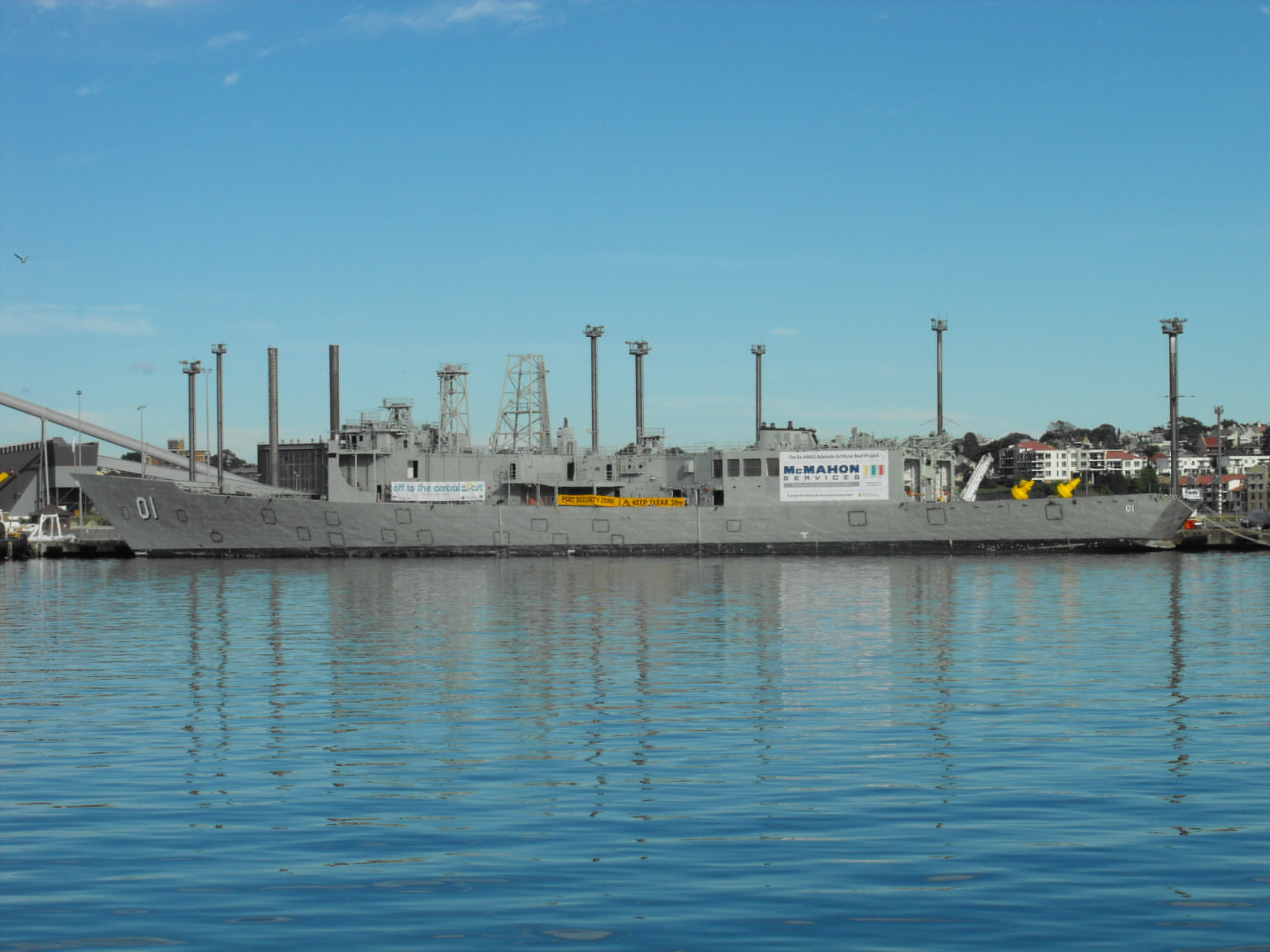 Photograph of the former Royal Australian Navy frigate Adelaide. She is tied up alongside at White Bay in Sydney Harbour, and is awaiting a court decision to determine if she is to be scuttled as planned, or disposed of in another way. In preperation for the scuttling, the ships masts have been cut down, her weapons have been removed, and diver access holes (the square 'panels' along the flank) have been cut — the sections of hull will be removed once she has been towed into position.